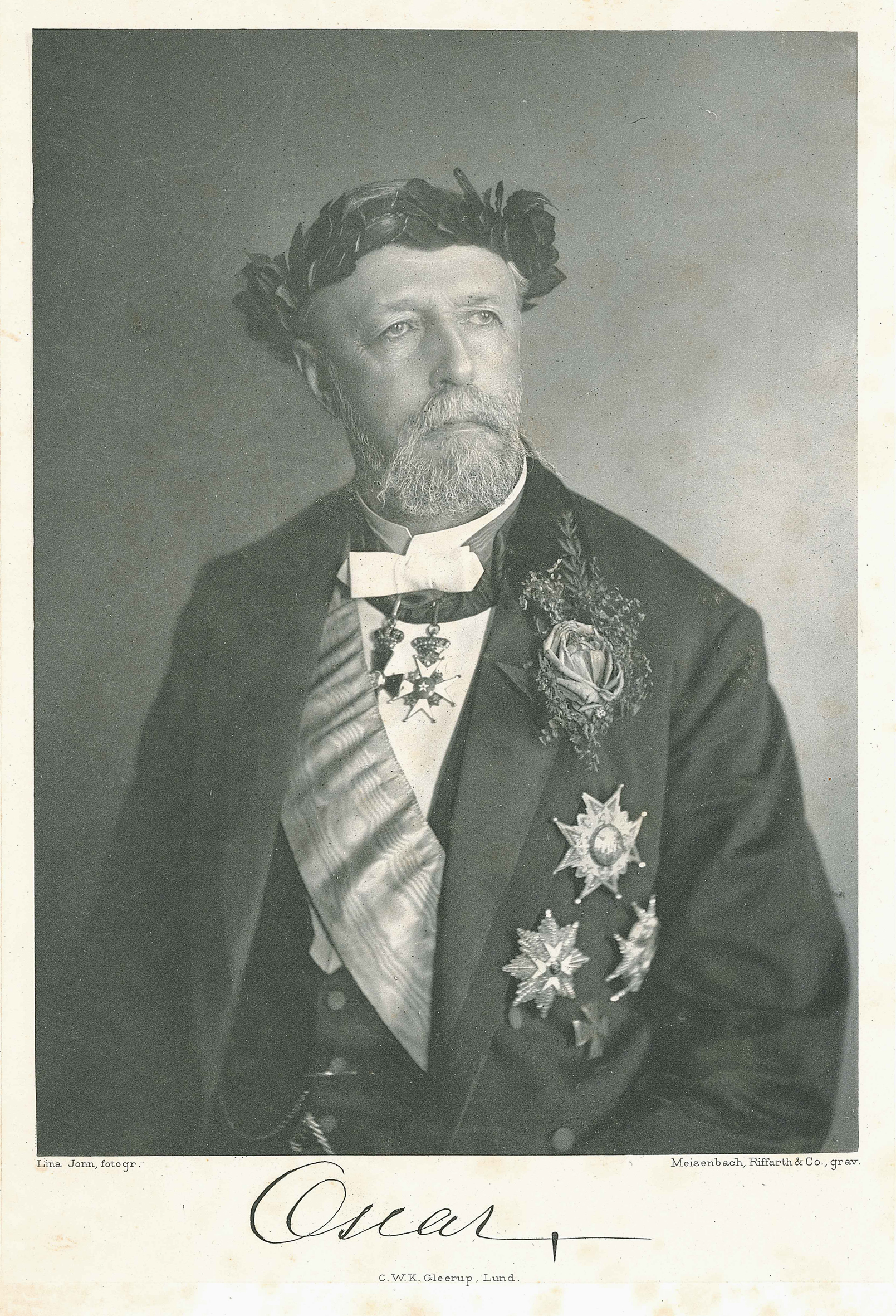 King Oscar II of Sweden as doctor honoris causa at Lund University.